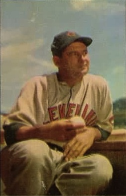 Cleveland Indians pitcher Early Wynn.